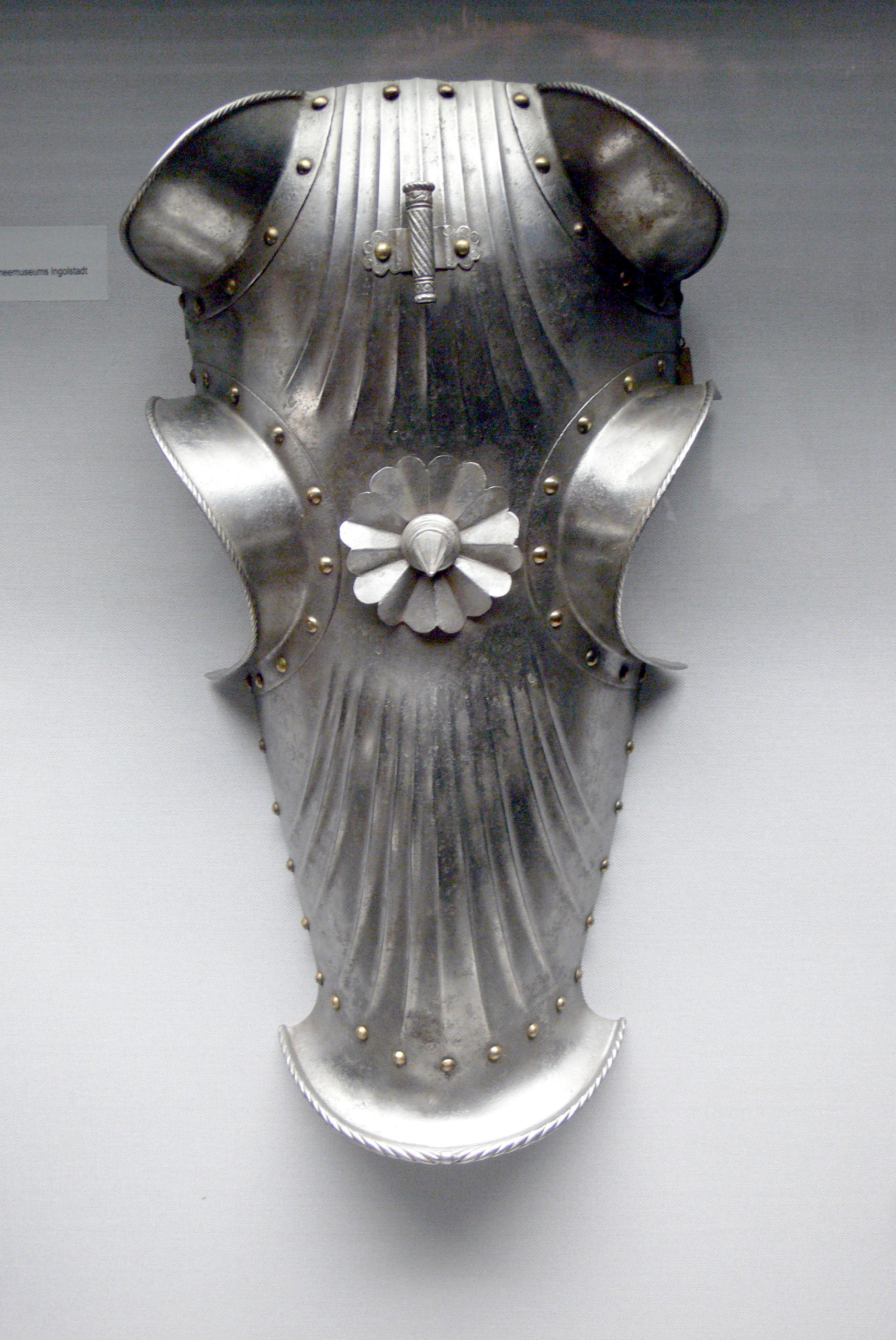 Oberhausmuseum (Passau). Champron (1520).